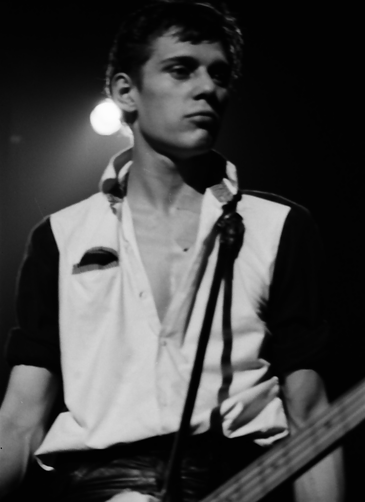 Paul Simonon performing with The Clash at the Tower Theater Show March 6, 1980.